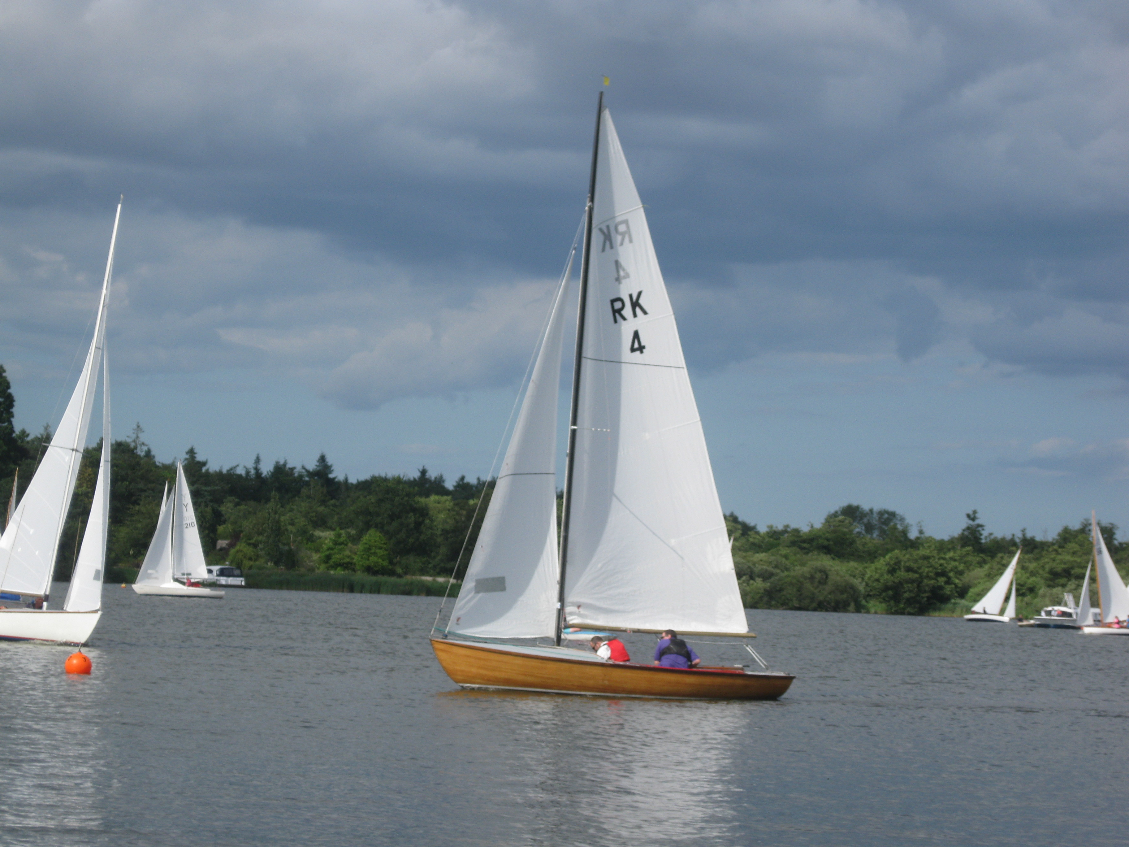 Reedling RK4 sailing on Blackhorse Broad, Horning, UK.